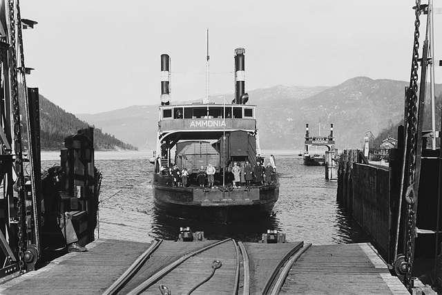 Norwegian steam railwayferry SF Ammonia built in 1929. SF Rjukanfos from 1909 is visible in the background. Picture is taken near Mæl station